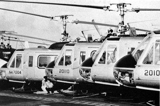 Air America Bell 205 helicopters aboard the U.S. Navy aircraft carrier USS Hancock (CVA-19) in May 1975. N47004 became famous through a series of photos taken while it was picking up evacuees on top of the Pittman Apartments, 22 Gia Long Street, Saigon, on 29 April 1975.